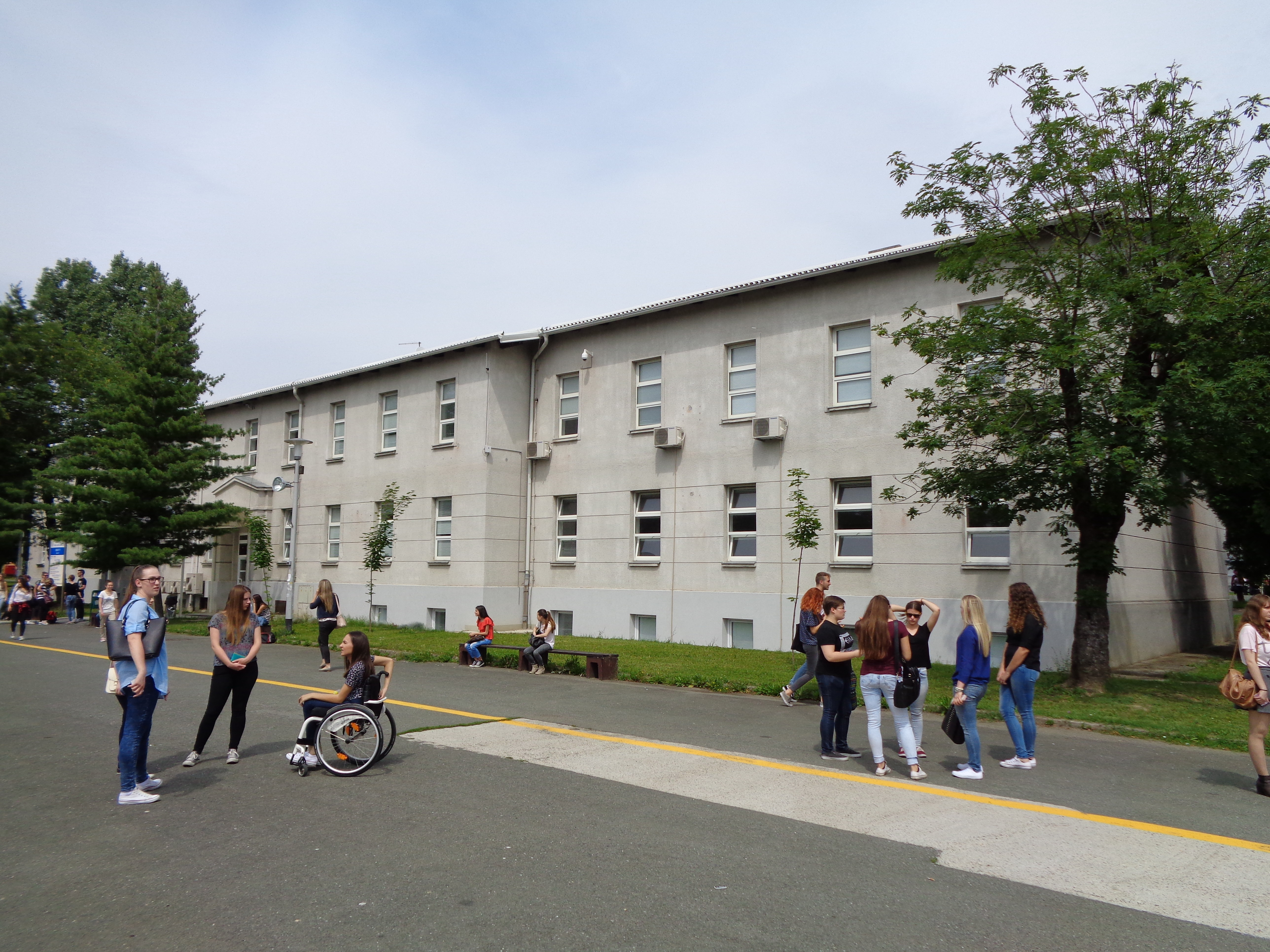 University of Zagreb - Faculty of Transport and Traffic Sciences in Zagreb-Borongaj (southern part of the building)